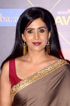 Sonali Kulkarni graces the News18 Reel Movie Awards 2018